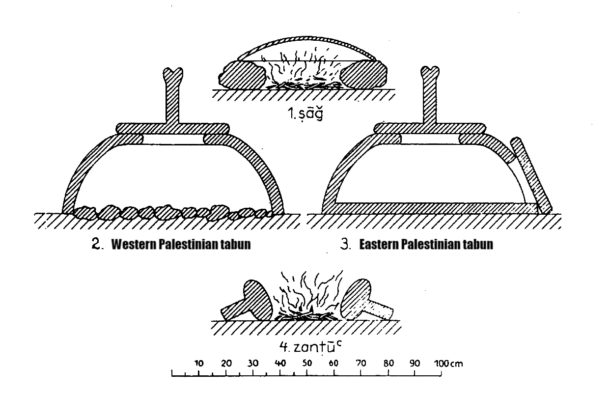 Illustration of baking ovens (tabun, etc.) used in Palestine before 1935